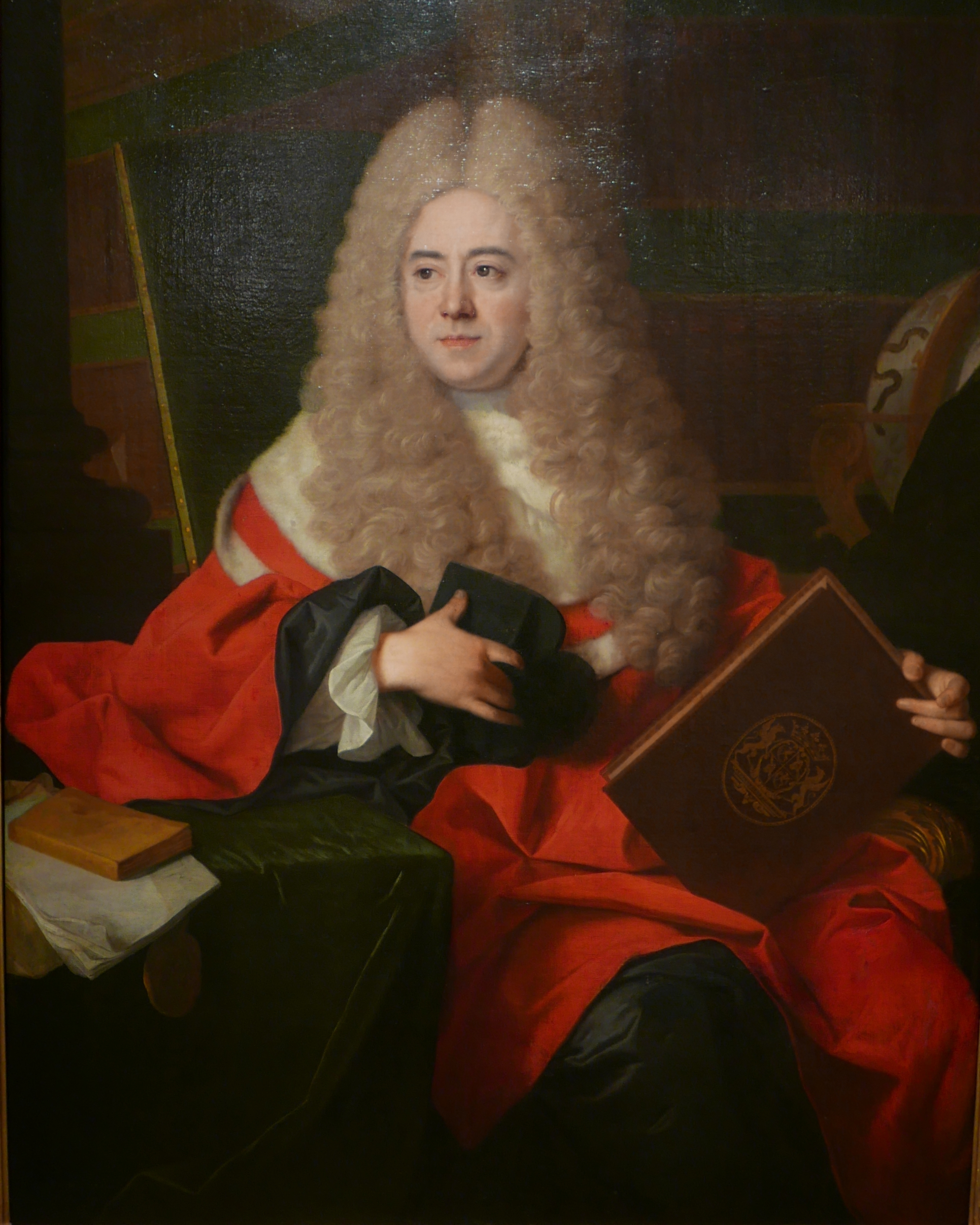 Montpellier (Hérault, Languedoc, Occitanie), Musée Fabre, temporary exhibition, unfortunately interrupted by the covid 19 pandemic then extended until June 28, 2020, "Jean Ranc, a native of Montpellier at the court of Kings". François-Xavier Bon de Saint-Hilaire in costume of first president of the Court of Accounts, Aids and Finances of Montpellier.